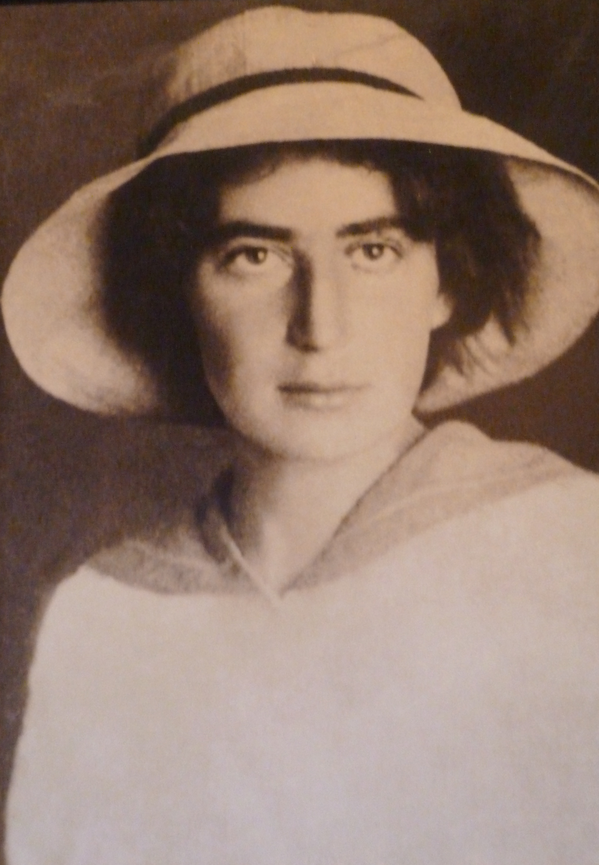 Rachel Bluwstein